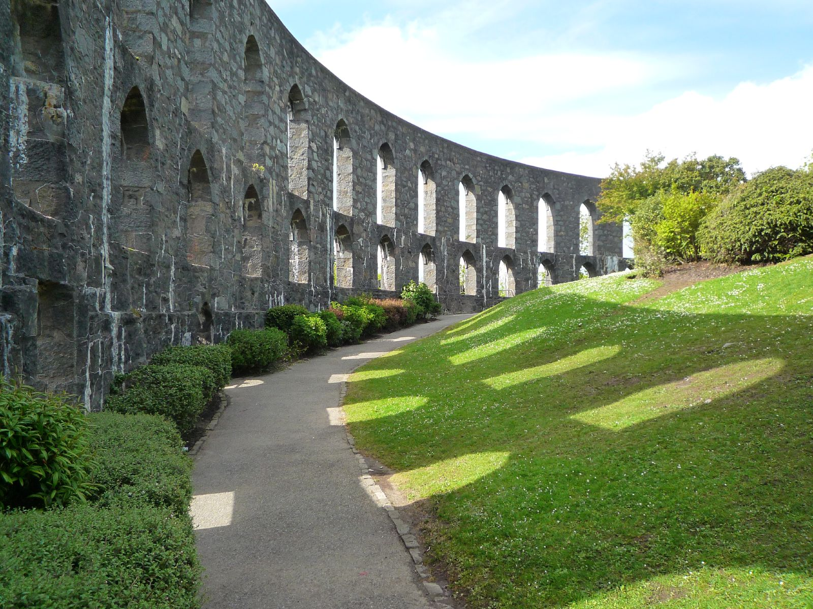 Macraigs Tower in Oban, Scotland